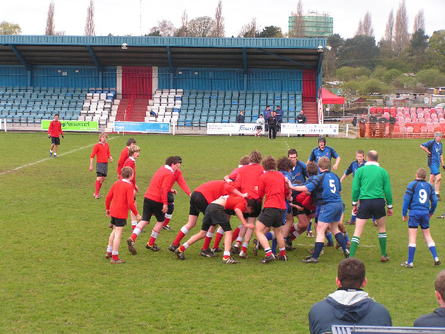 Doncaster Rugby Club. U15's Schools' Yorkshire Cup Final. Harrogate Grammar School the winners.